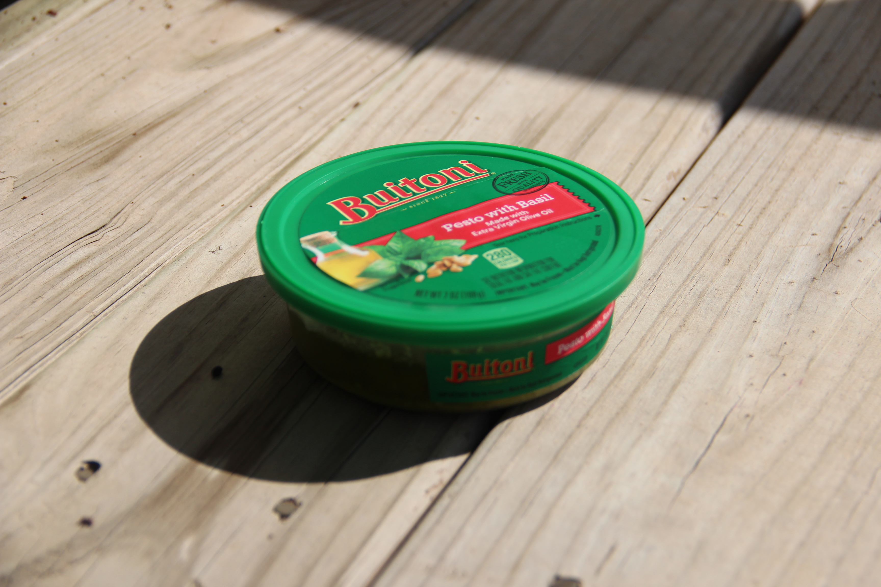 A container of pesto sauce manufactured by Buitoni